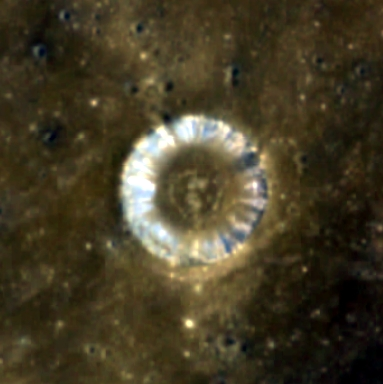 Manners lunar crater - Clementine color image